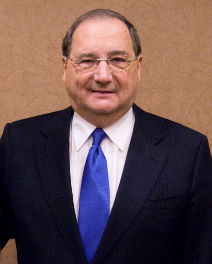 Abraham Foxman at a Hudson Union Society event in January 2011.